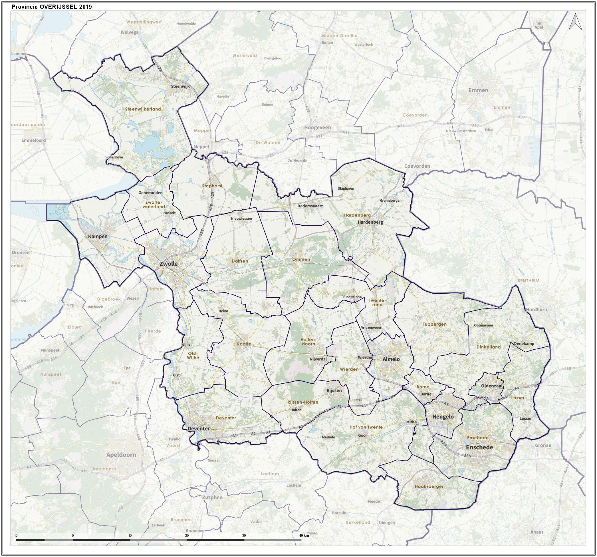 Overview map of the province, including municipal borders, largest places and major infrastructure.